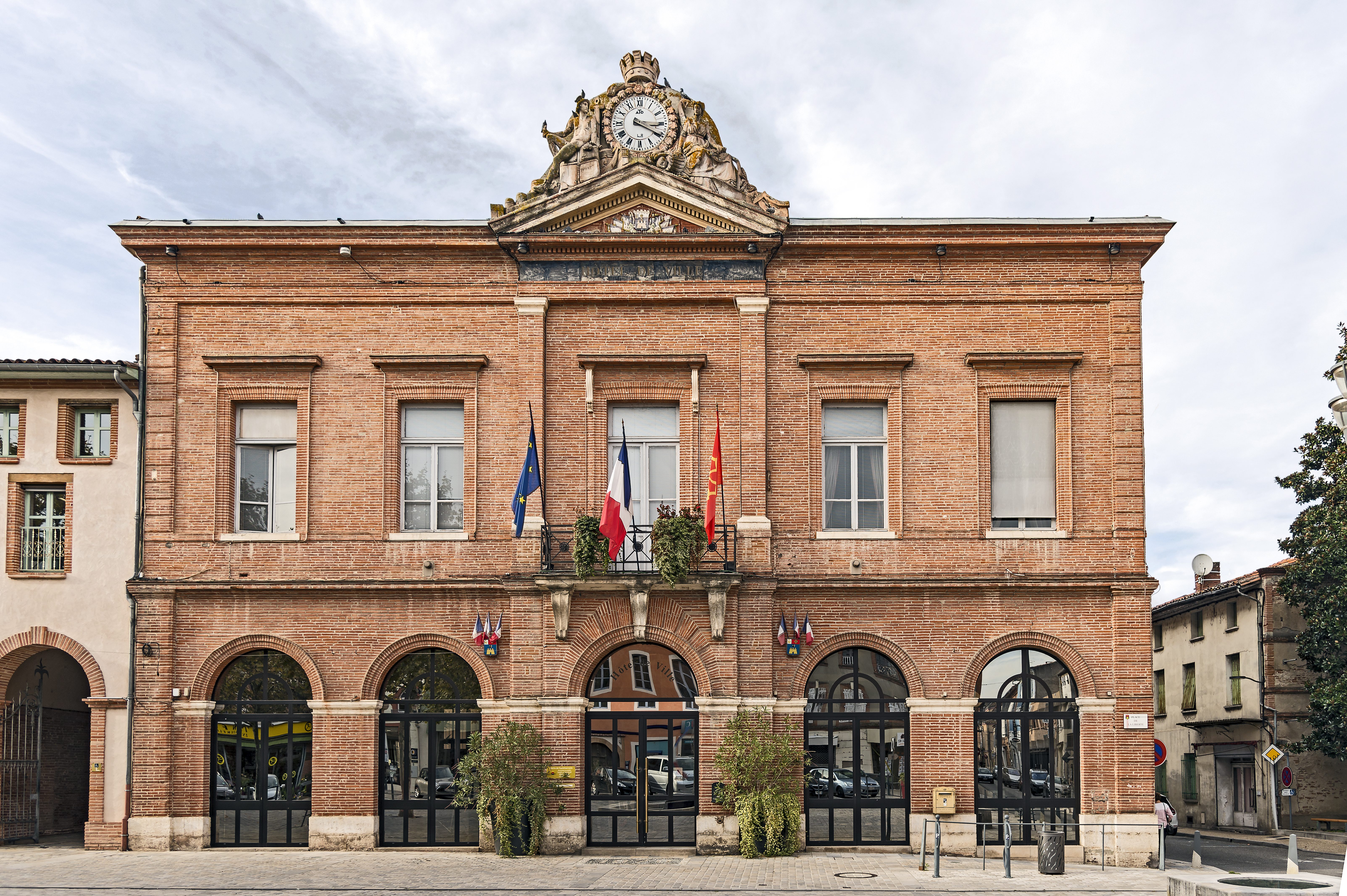 Castelsarrasin, Tarn-et-Garonne. Town hall. Building constructed between 1823 and 1825; clock sculptures made by Palat in 1853.